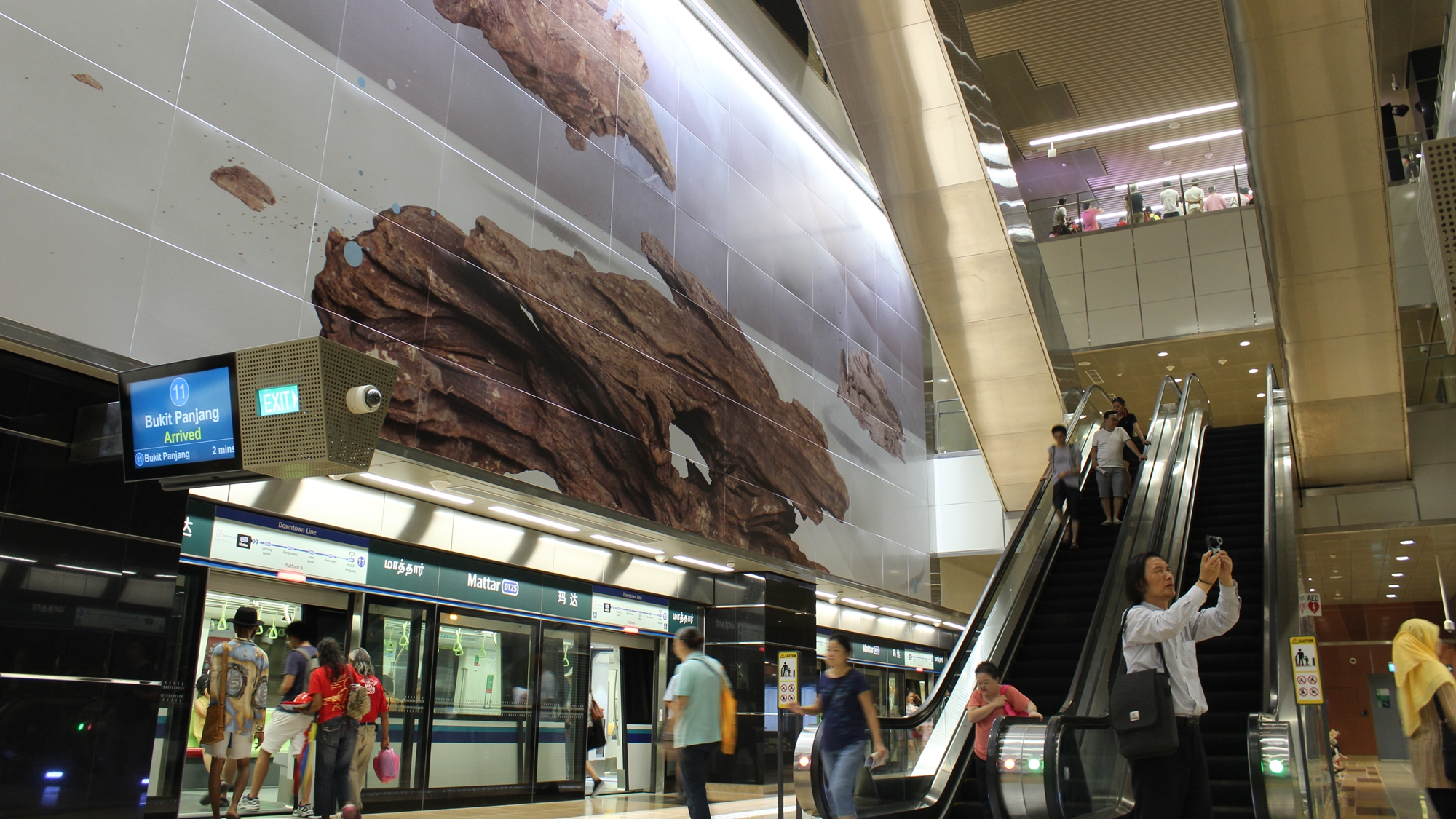 DT25 Mattar station